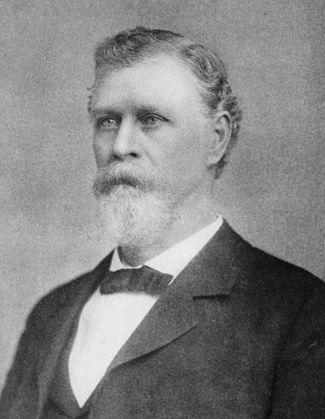 Kentucky Congressman Albert S. Berry